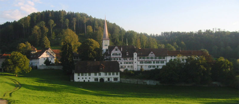 Monastery of Magdenau, Wolfertswil, Degersheim, Canton of St. Gallen, Switzerland.